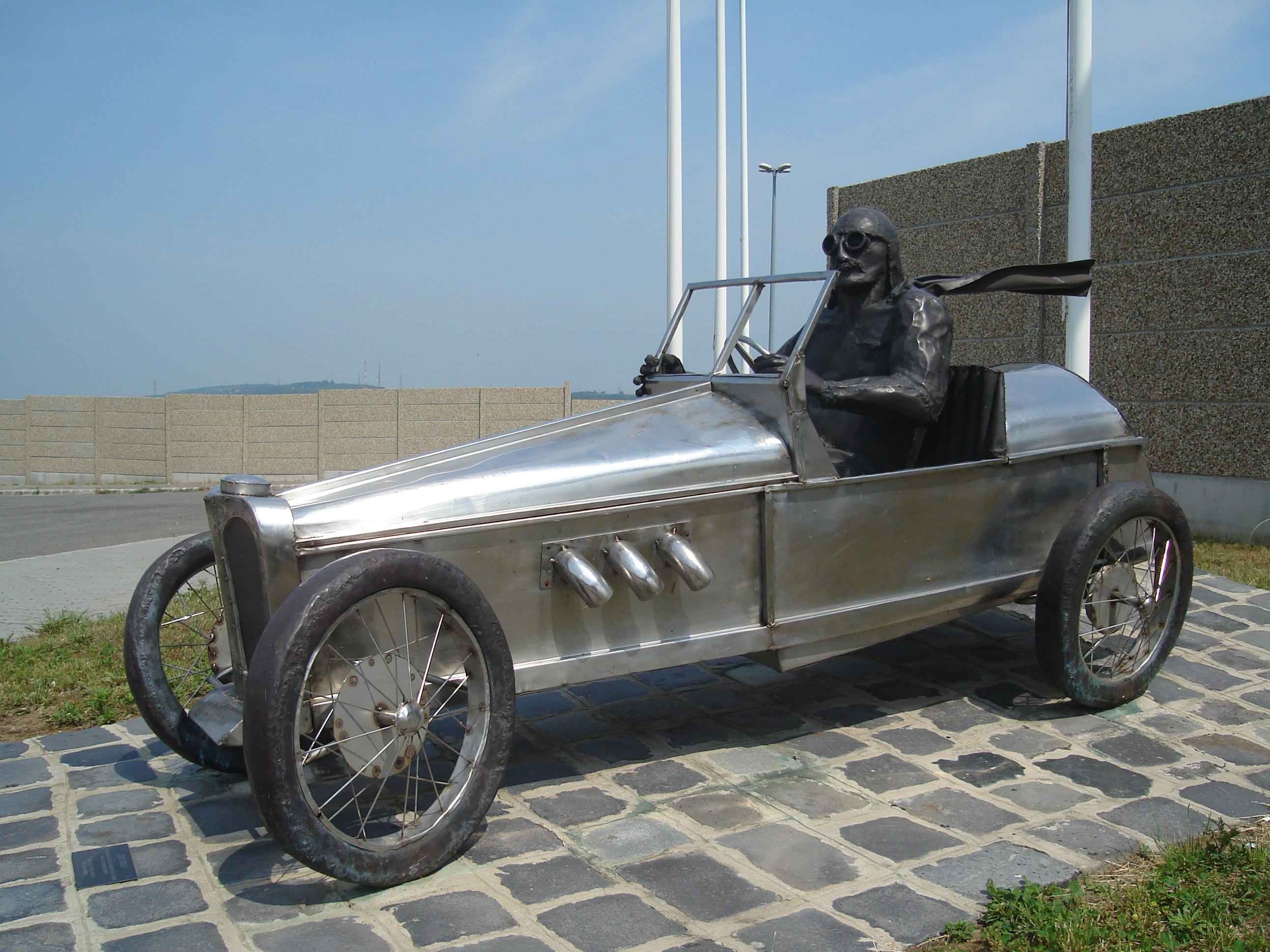 Picture: Statue of Ferenc Szisz in Mogyoród (Hungary) at the main entrance of the Hungaroring. Taken by User: Fekist